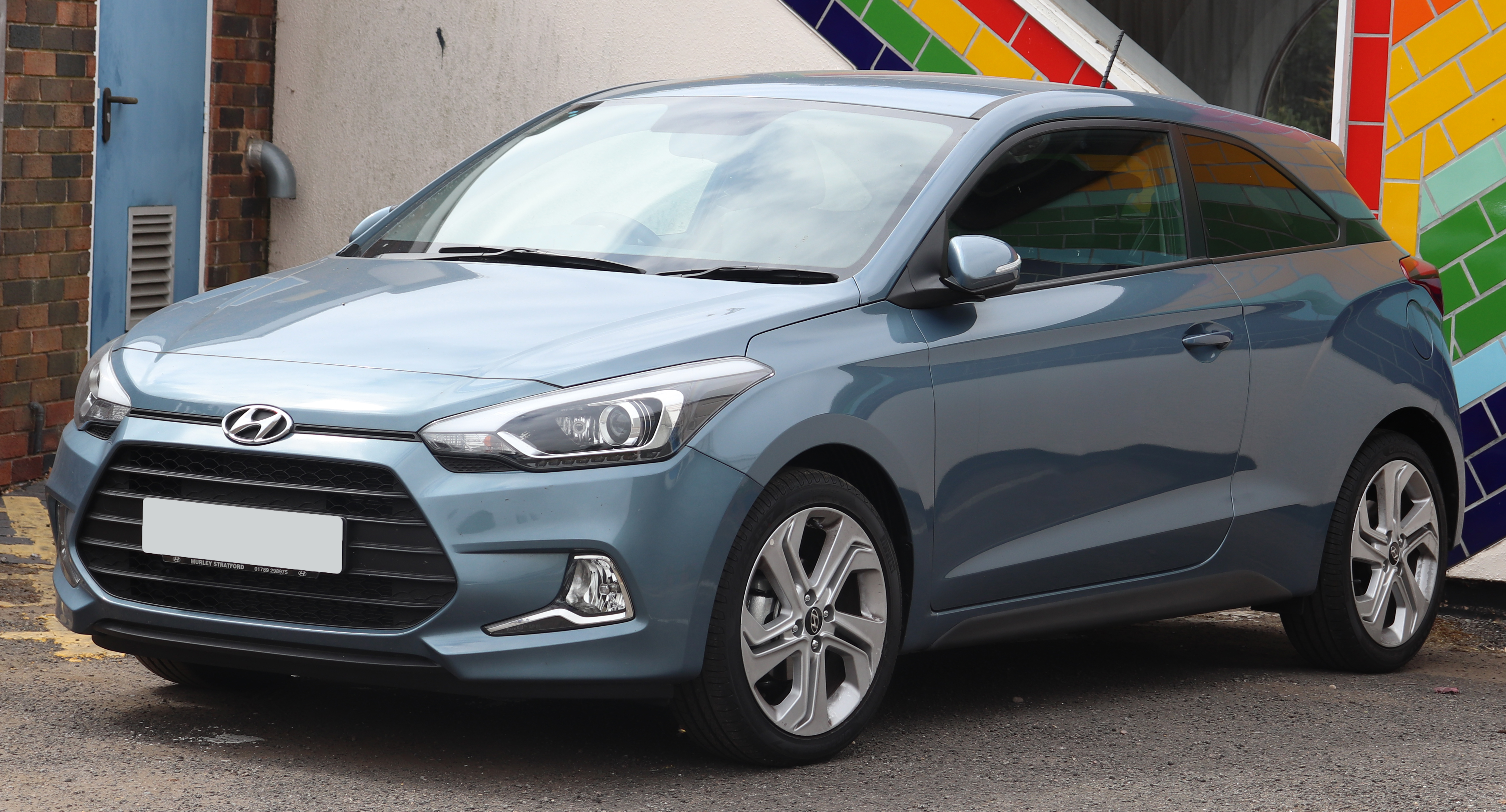 2018 Hyundai i20 Premium NAV MPi Coupe 1.2 Taken in Warwick